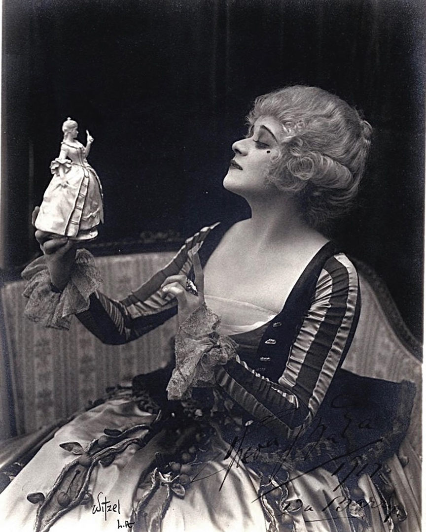 Still from the American drama film Madame Du Barry (1917) with Theda Bara, on page 16 of the January 19, 1918 Exhibitors Herald.